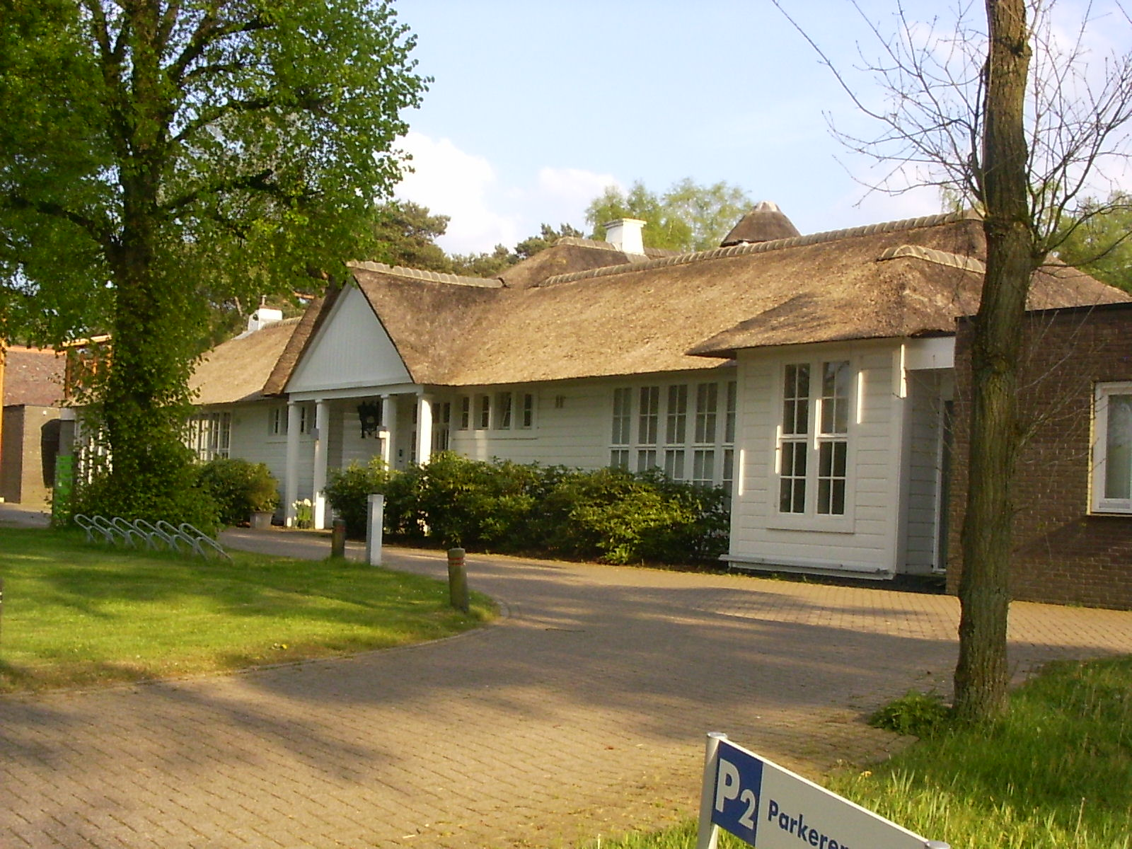 Leusden, Dodeweg, International School for Philosophy